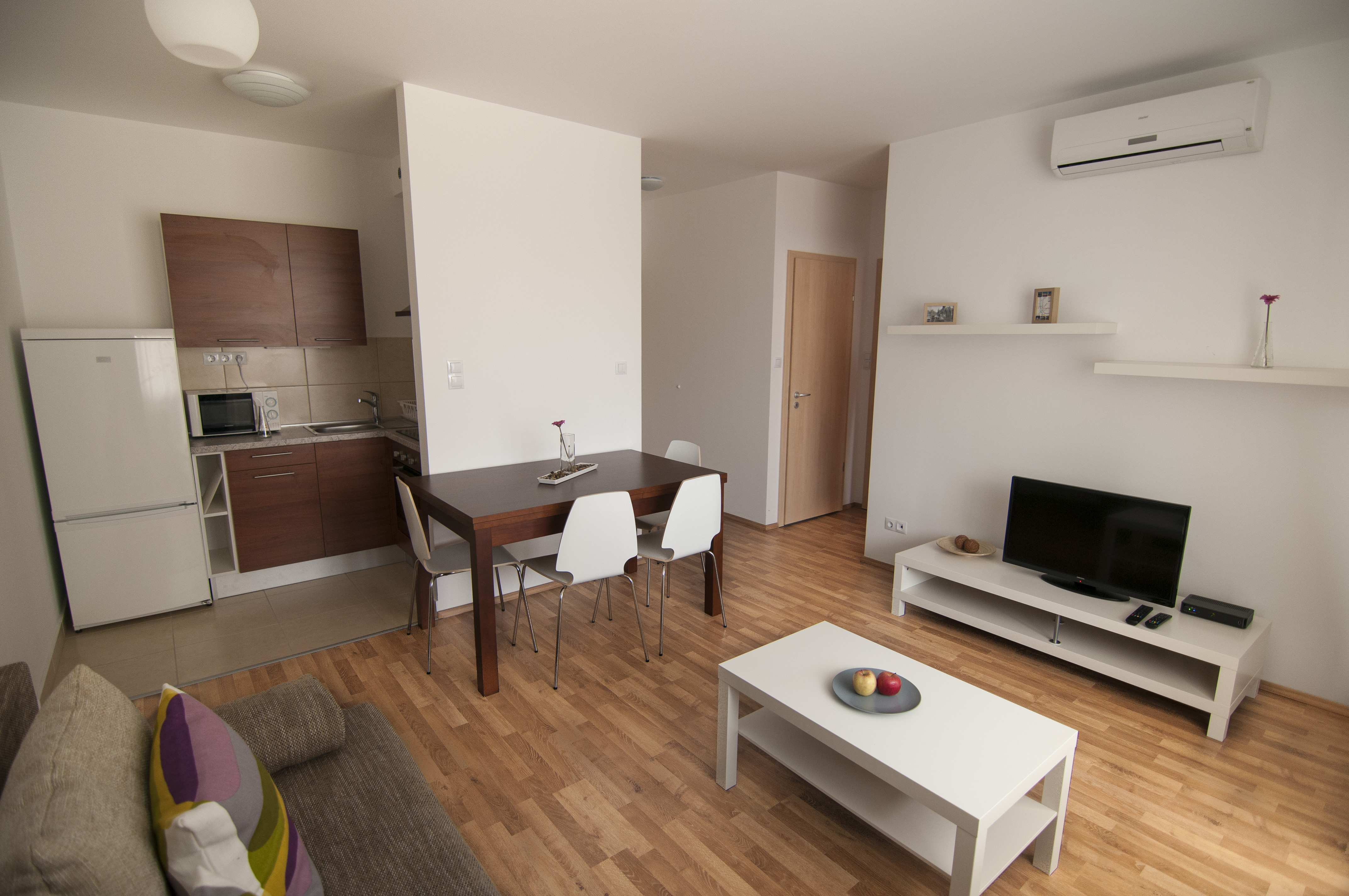 Apartment livingroom